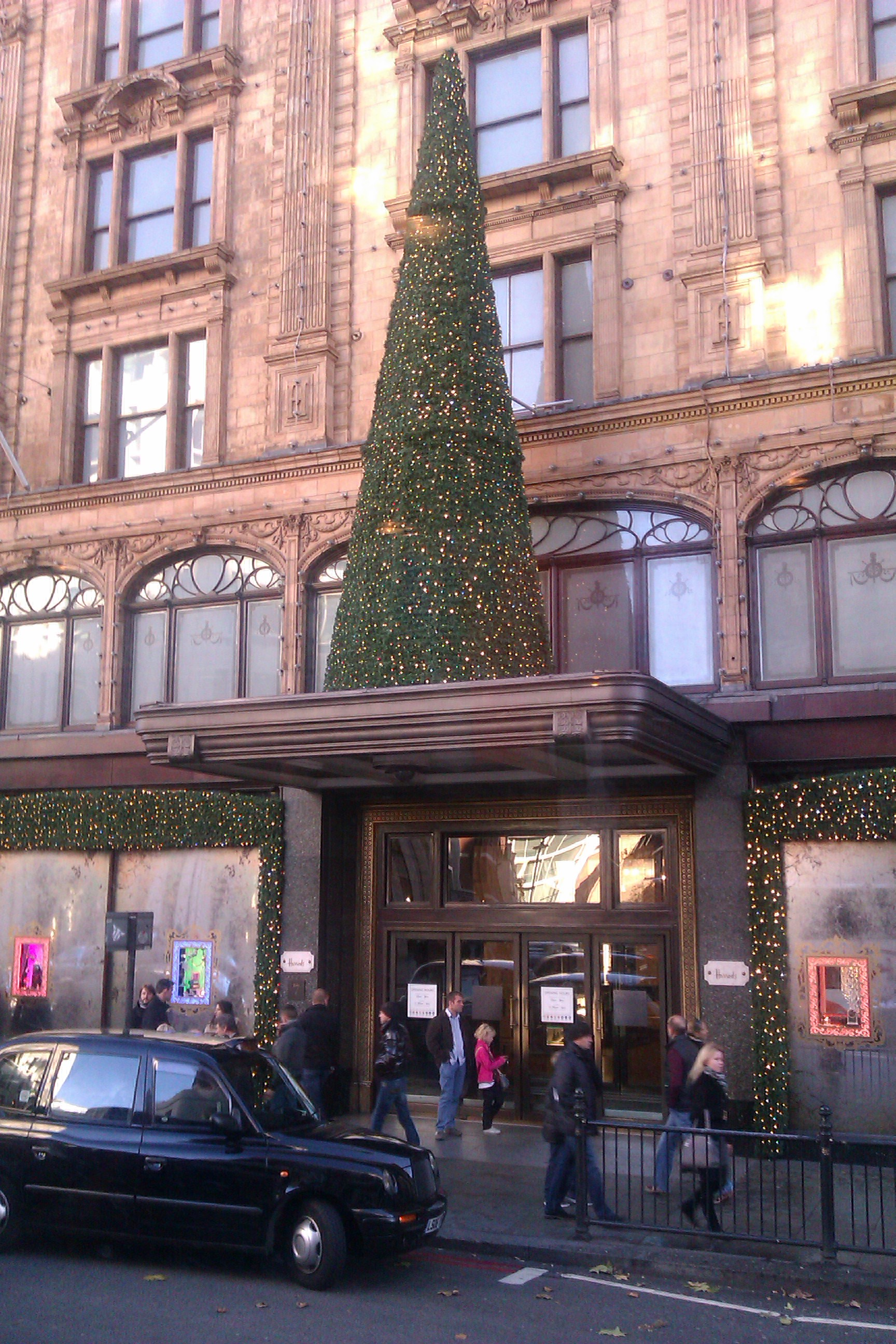 The Harrods' shop before Christmas.